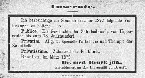 Julius Bruck's private clinic opening announcement in "Correspondenz-Blatt fuer Zahnaerzte" (1872)